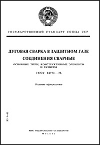 Cover page of a GOST standard 14771-76 Gas-shielded arc welding. Welded joints. (ДУГОВАЯ СВАРКА В ЗАЩИТНОМ ГАЗЕ. СОЕДИНЕНИЯ СВАРНЫЕ. – Dugovaya svarka v zashchitnom gaze. Soyedineniya svarnyye.)